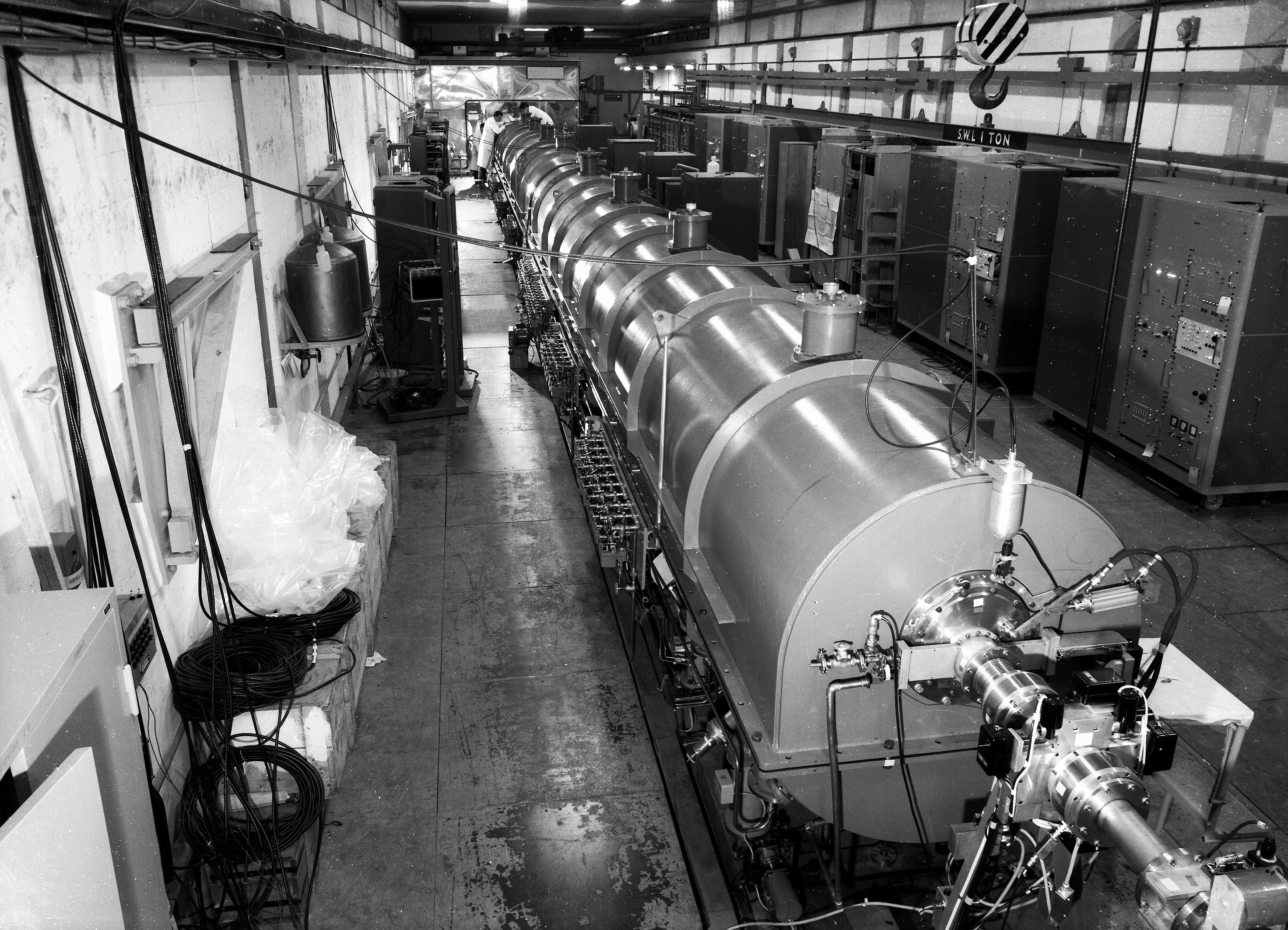 Linac 1, looking upstream towards the source of the particles which get accelerated